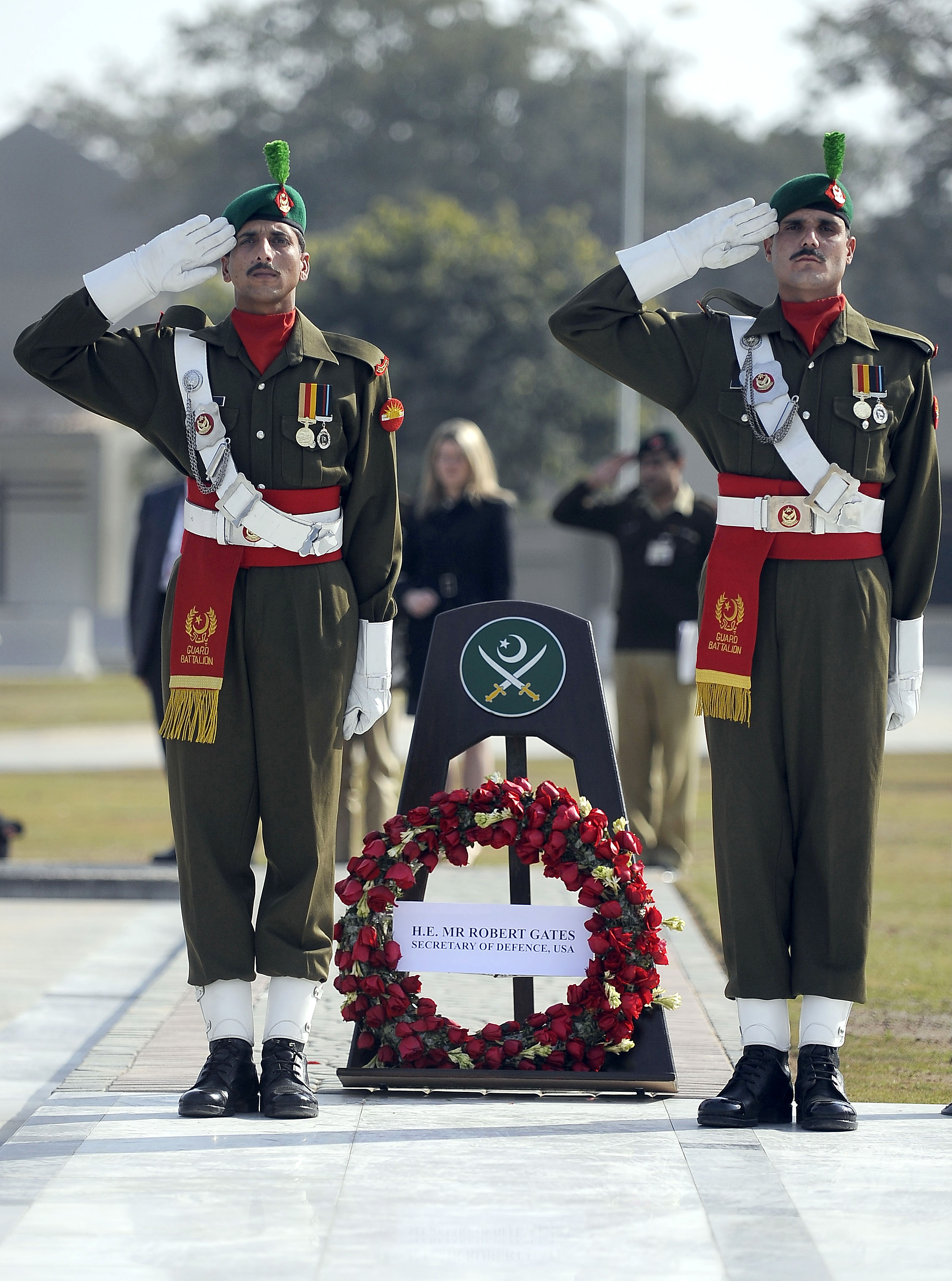 A Pakistani Honor Guard prepares for the arrival of U.S. Defense Secretary Robert M. Gates at the Army's Martyr's Monument that honors the sacrifices of security forces and citizens in their fight against extremists in Rawalpindi, Pakistan, Jan. 21, 2010.